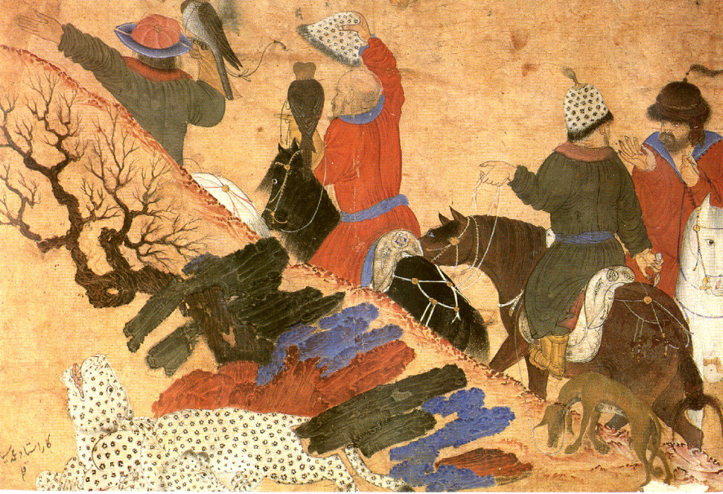 Warriors Chagatai Moghuls